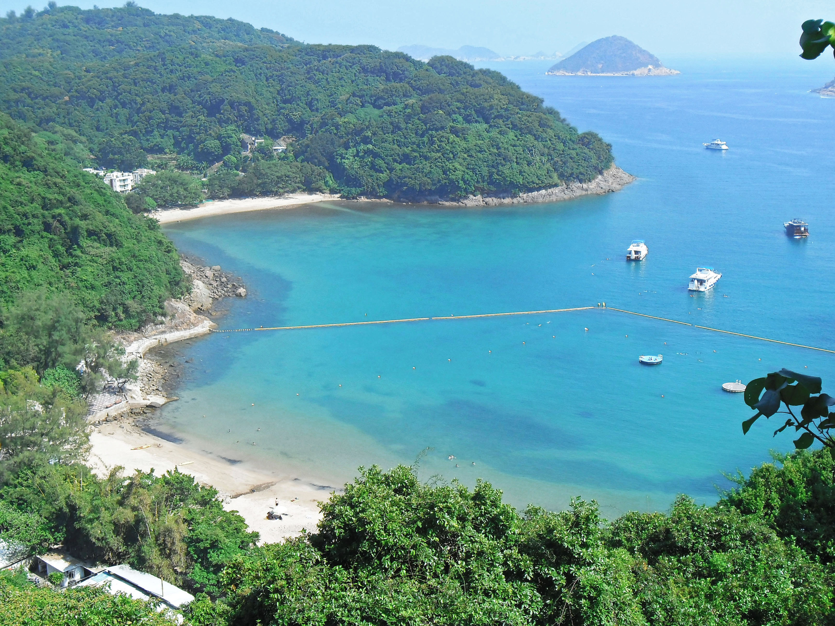 Clear Water Bay 1st beach on September 9 2014. If you happen to see this, please add this picture to the top of this wikipedia article: It'll be very much appreciated.